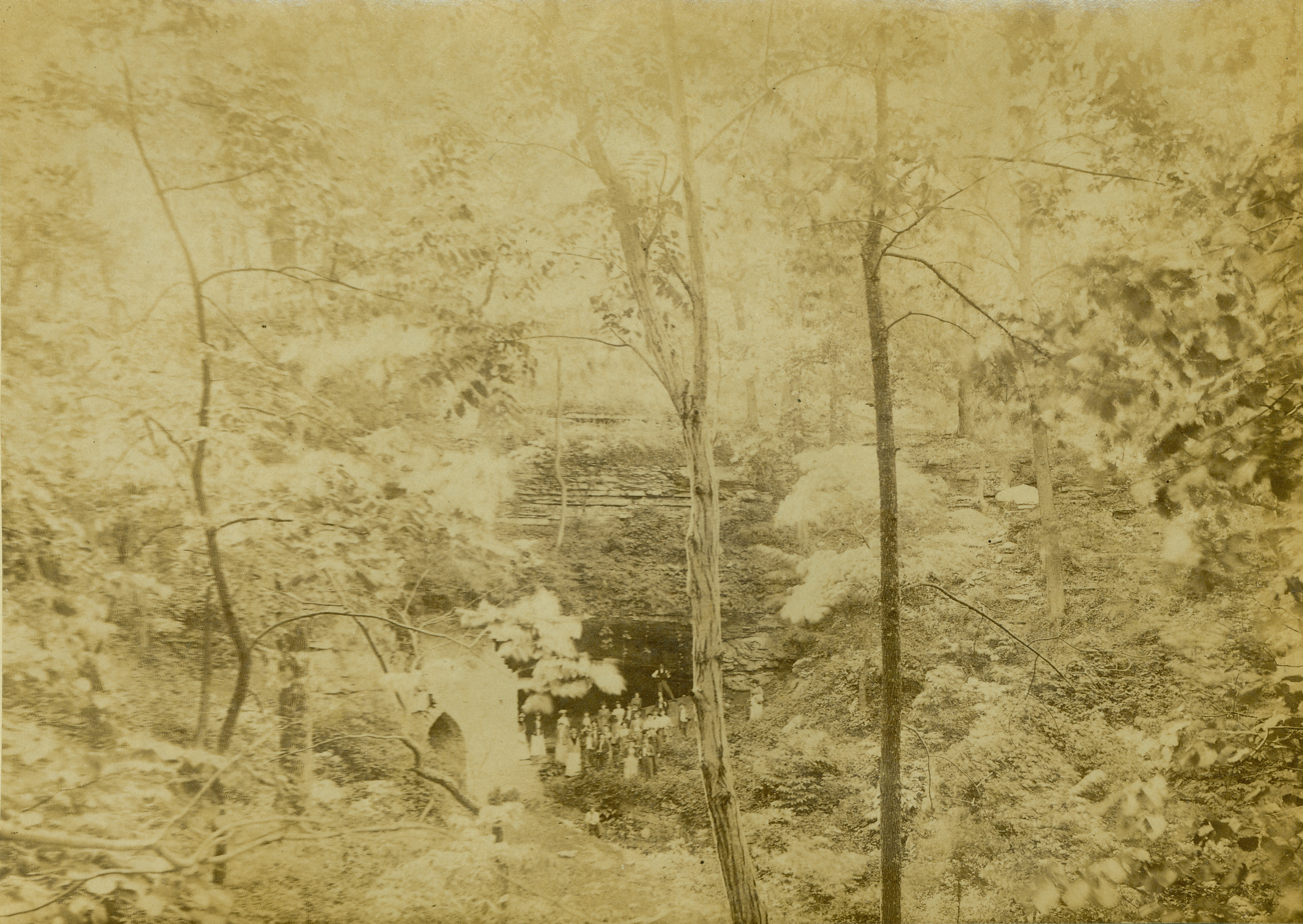 Title: Cliff Cave. Picnic party in front of entrance, distant view. 13 June 1891.